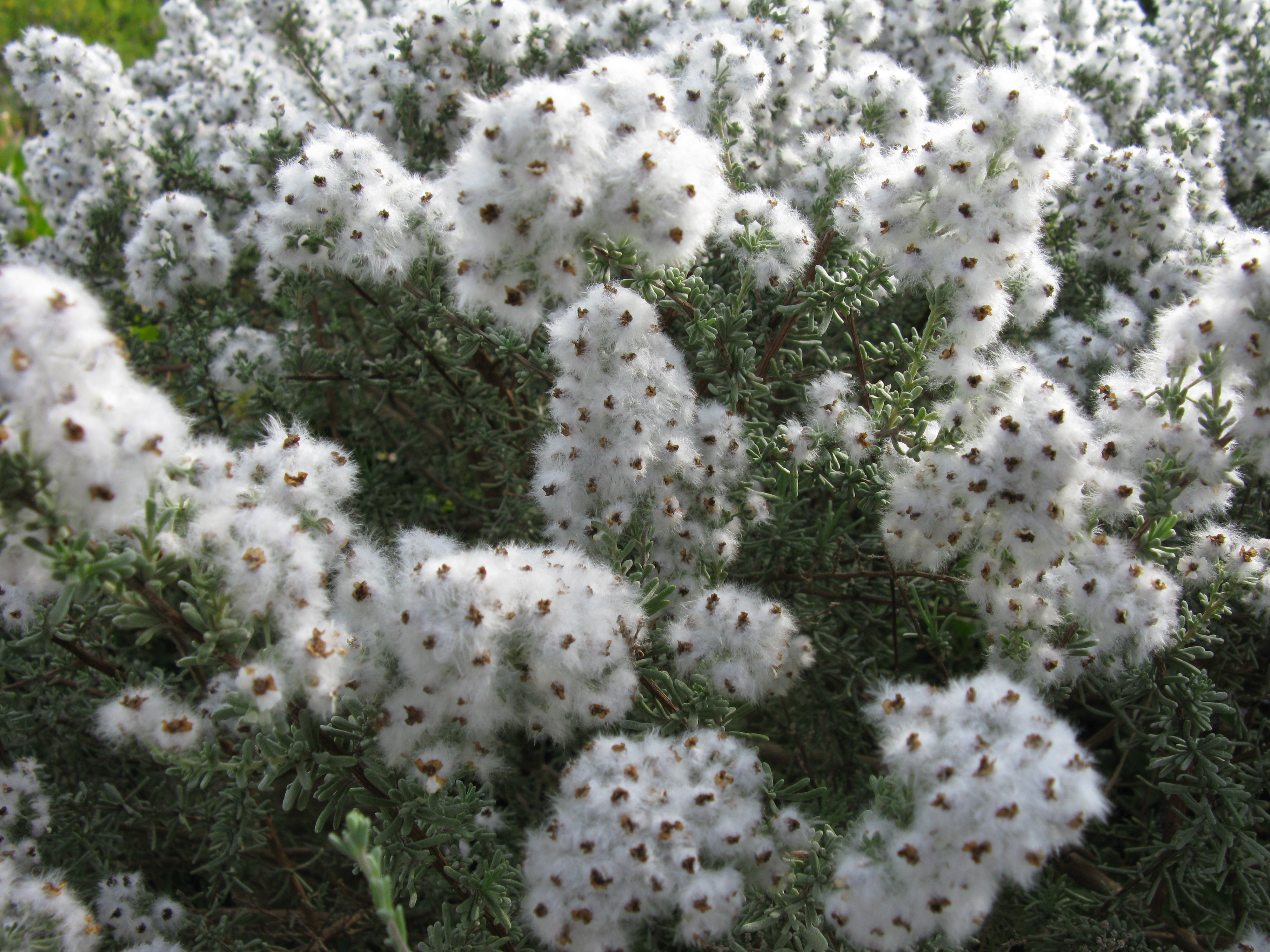 Eriocephalus africanus in winter, showing persistent snowy expended seed follicles.